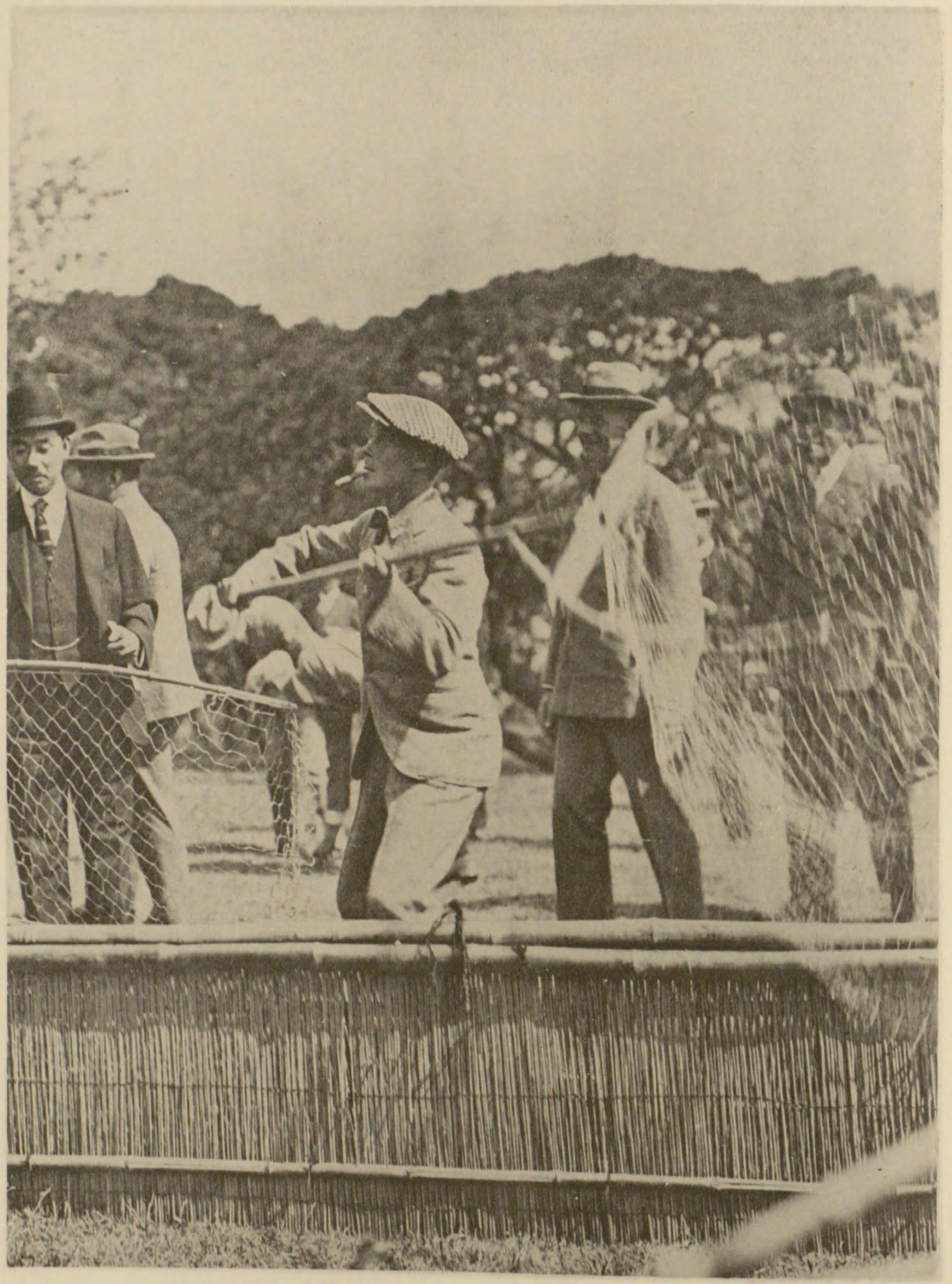 Edward, Prince of Wales plays duck hunting in Hama-rikyū Garden, Tokyo Japan in 1922